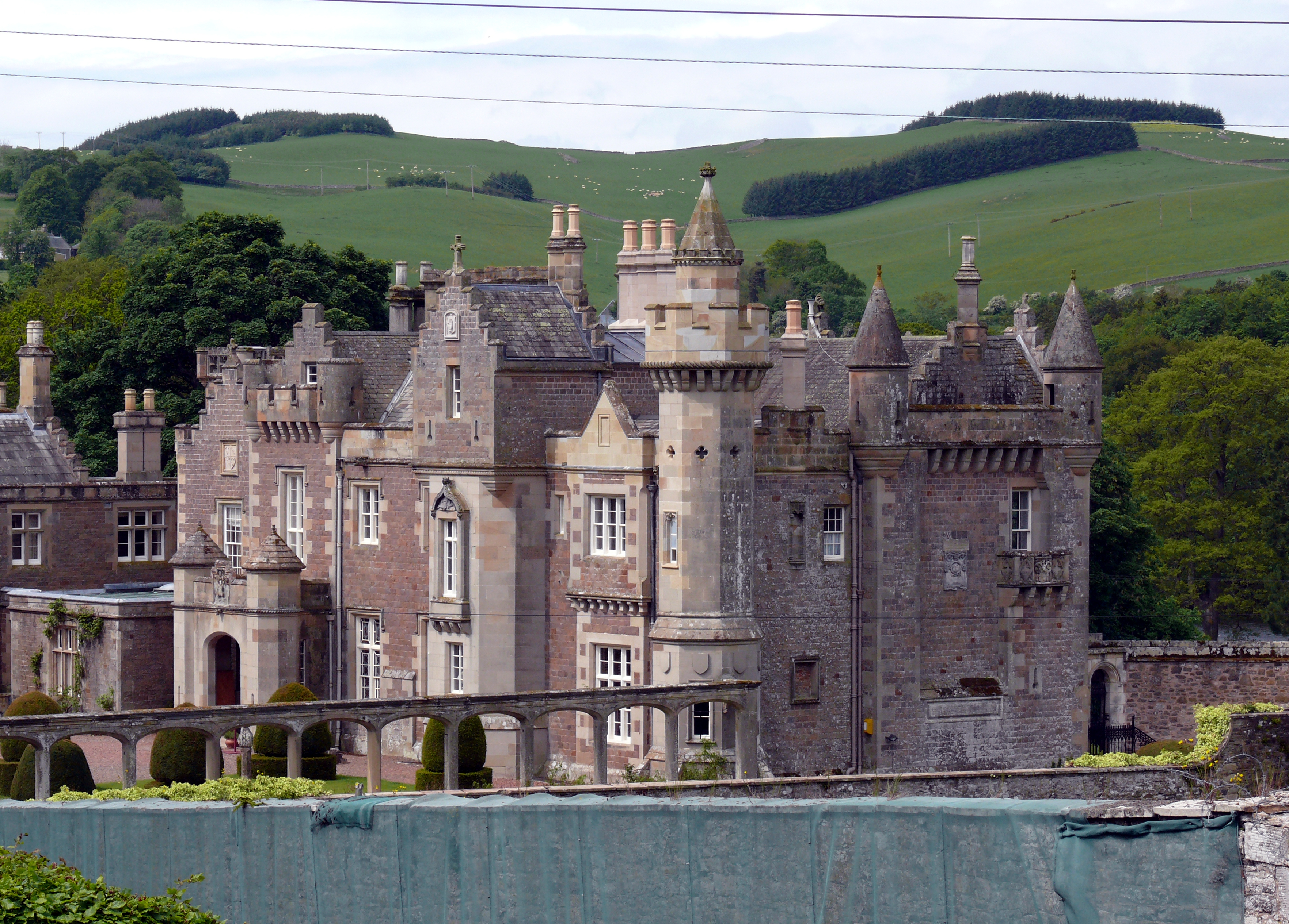 Abbotsford House, the residence of historical novelist and poet, sir Walter Scott's. It is a historic house in the region of the Scottish Borders in the south of Scotland, near Melrose, on the south bank of the River Tweed.